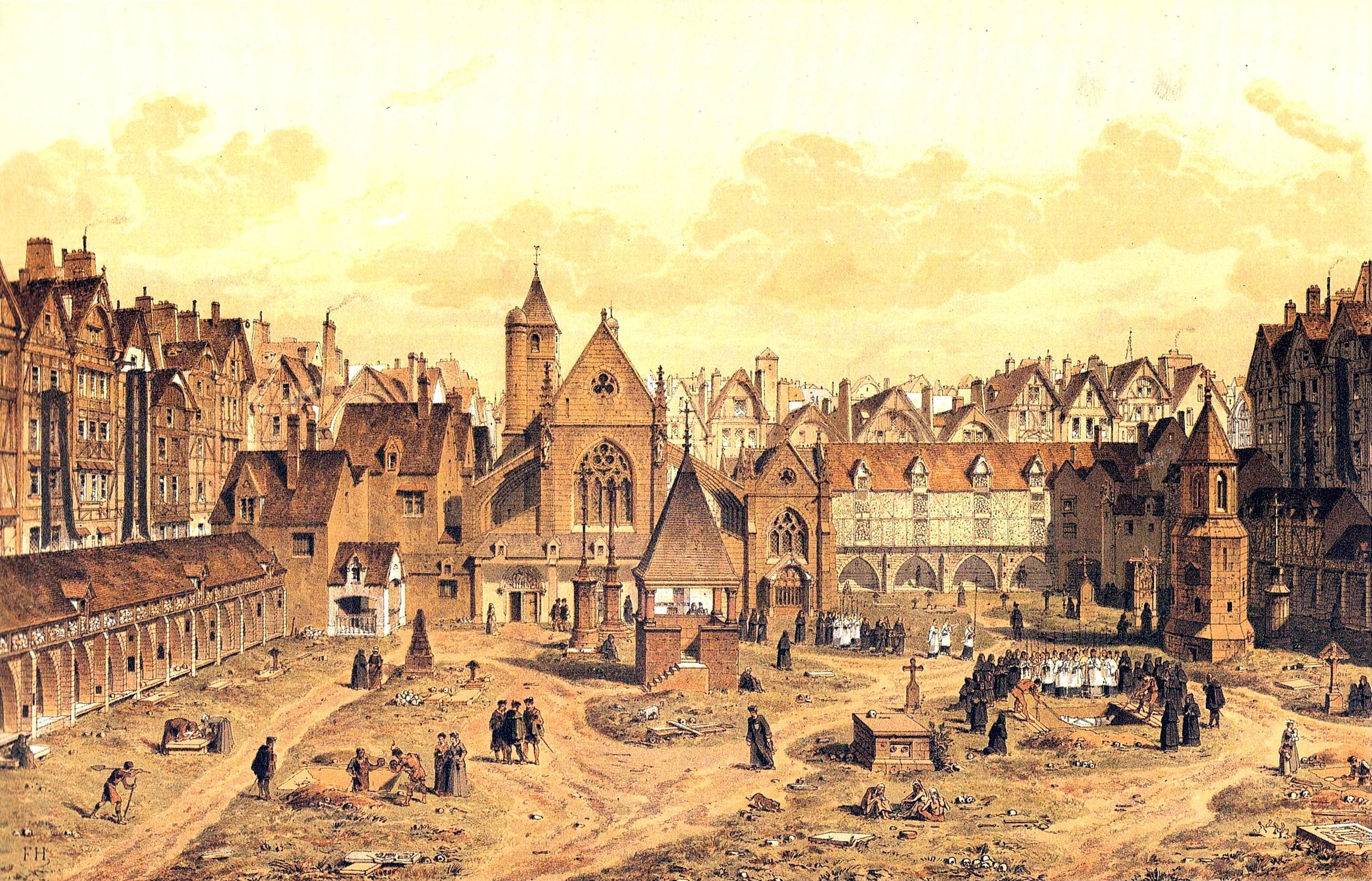 Engraving depicting the Saints Innocents cemetery in Paris, around the year 1550 without its frame